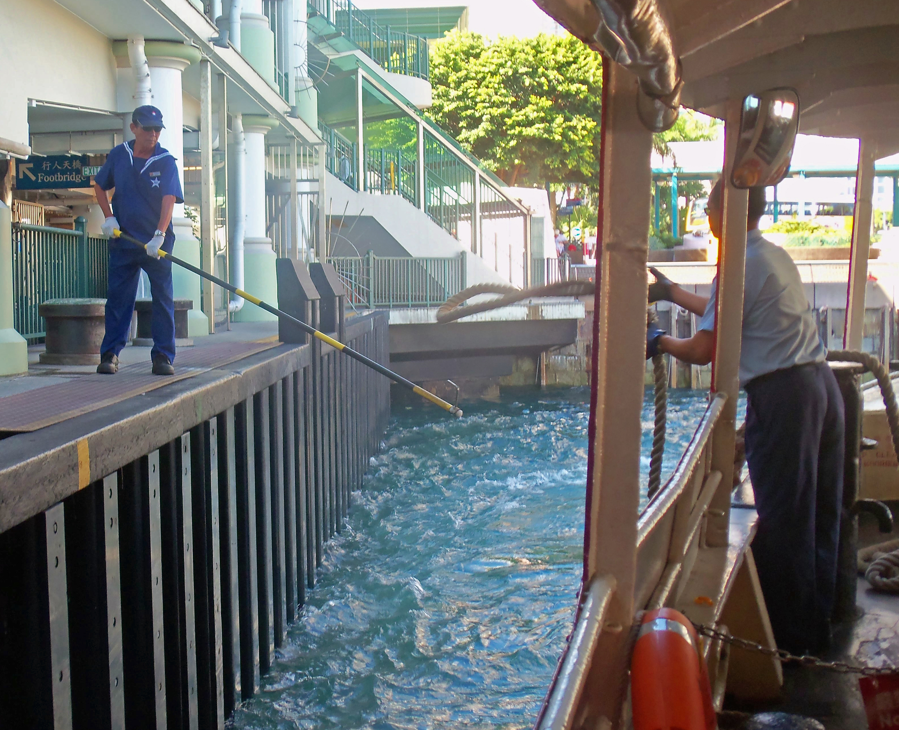 Star Ferry crew using billhook to moor boat to Central pier in Hong Kong